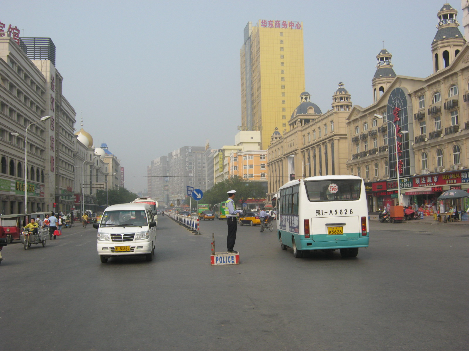 LuoHe